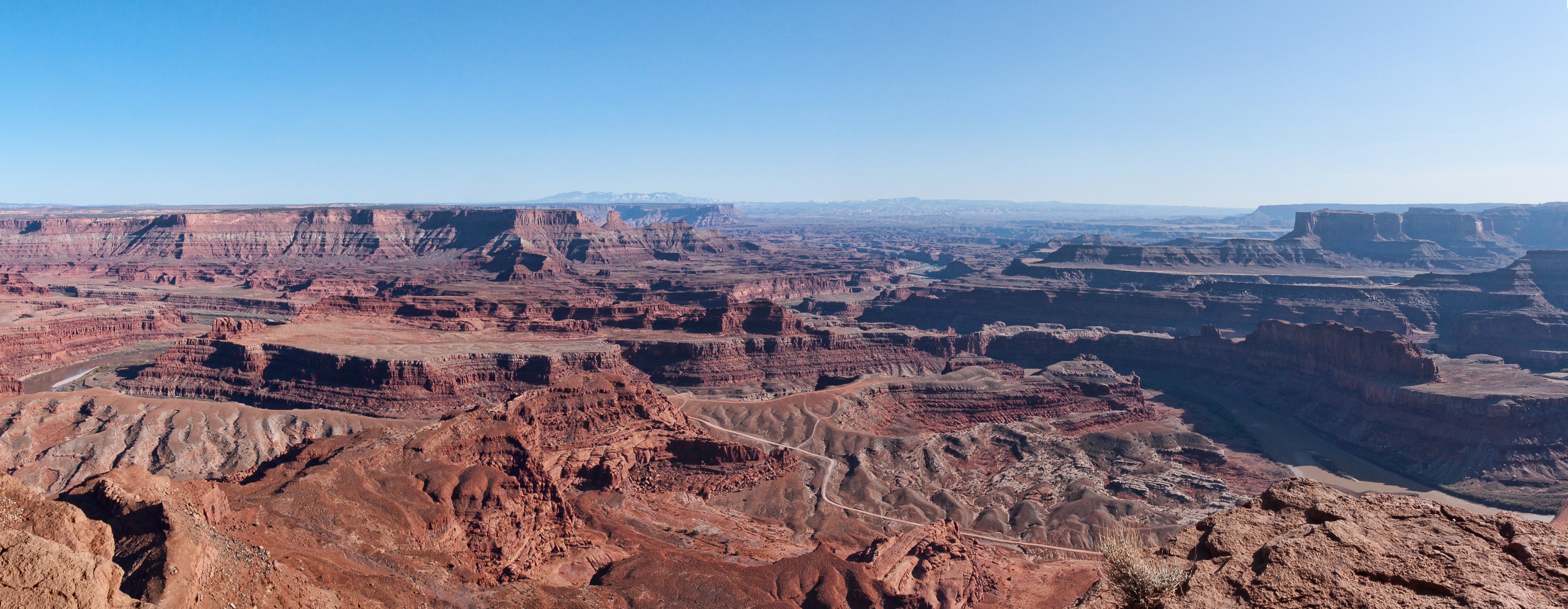 Dead horse point panorama. Dead Horse State Park. Utah